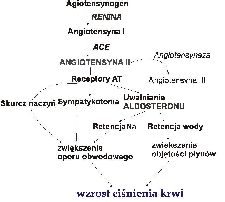 renin-angiotensin-aldosterone system